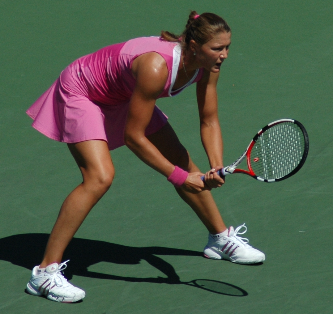 Dinara Safina at the 2008 US Open